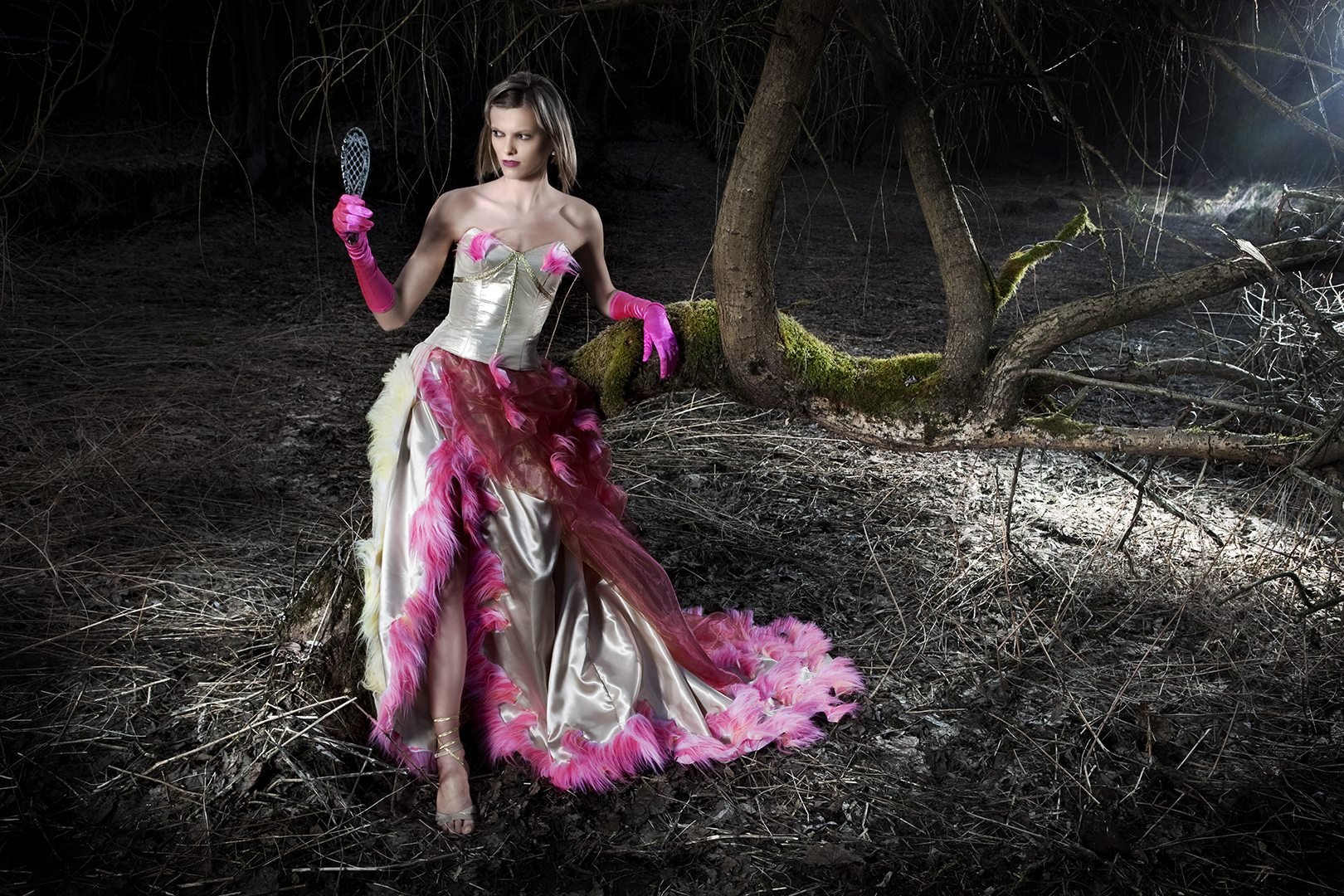 Šimon Pikous´s photography Personality rights warningAlthough this work is freely licensed or in the public domain, the person(s) shown may have rights that legally restrict certain re-uses unless those depicted consent to such uses. In these cases, a model release or other evidence of consent could protect you from infringement claims.